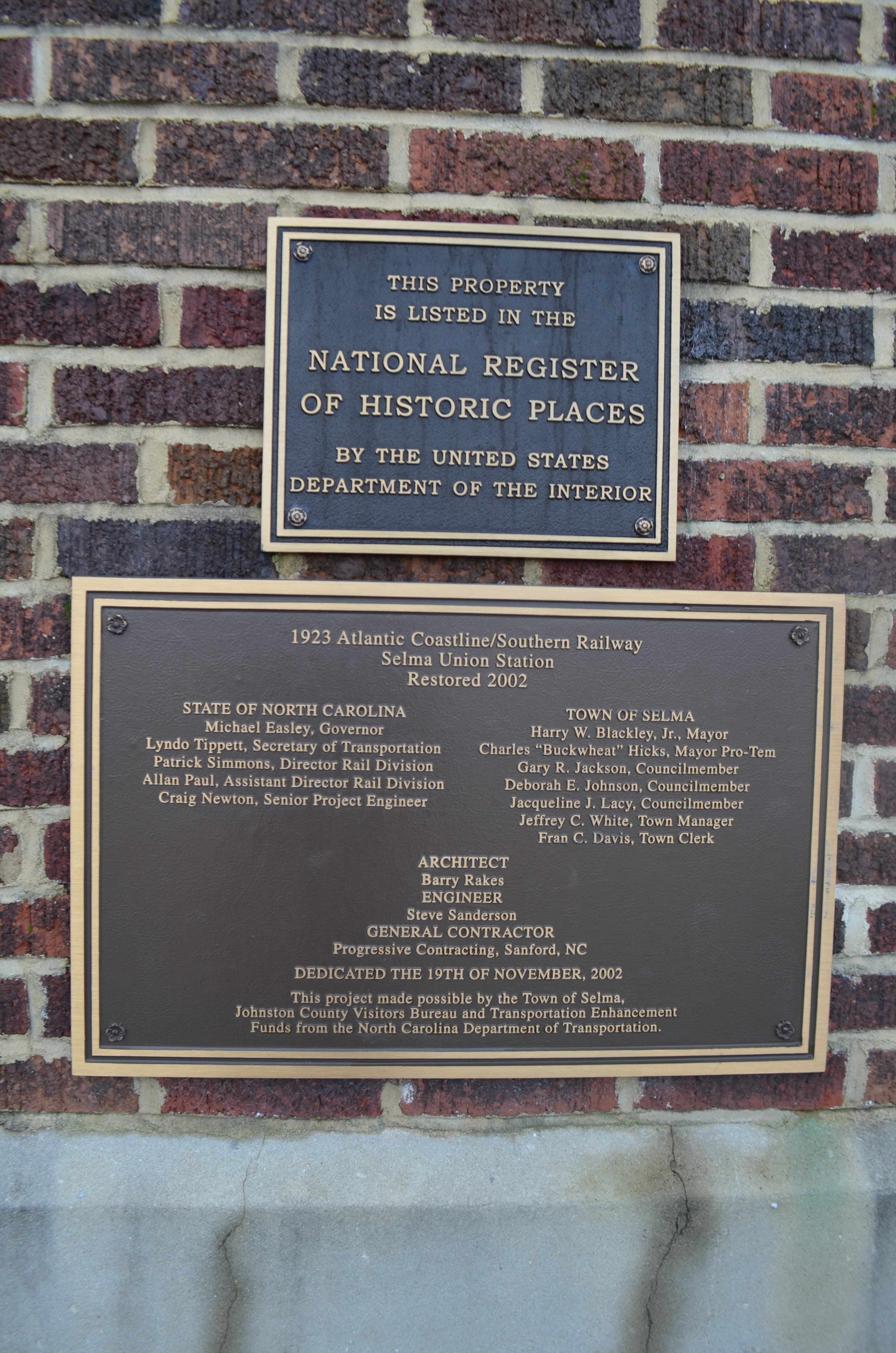 Plaques recognizing the Selma-Smithfield (Amtrak station) as part of the National Register of Historic Places, as well as it's 2002 restoration.